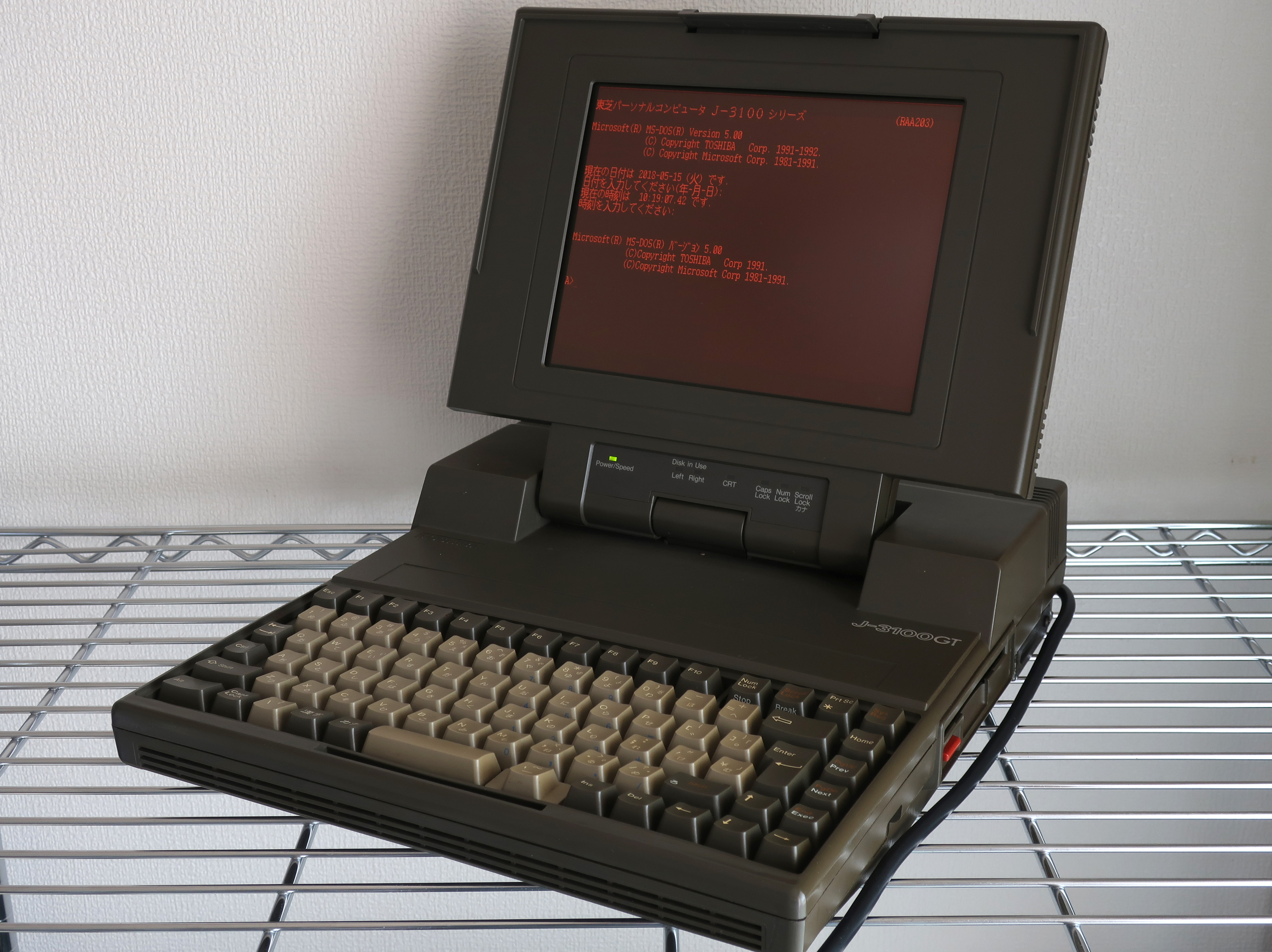 A laptop computer Toshiba J-3100 (J-3100シリーズ) model GT021, the Japanese version of Toshiba T3100/20.